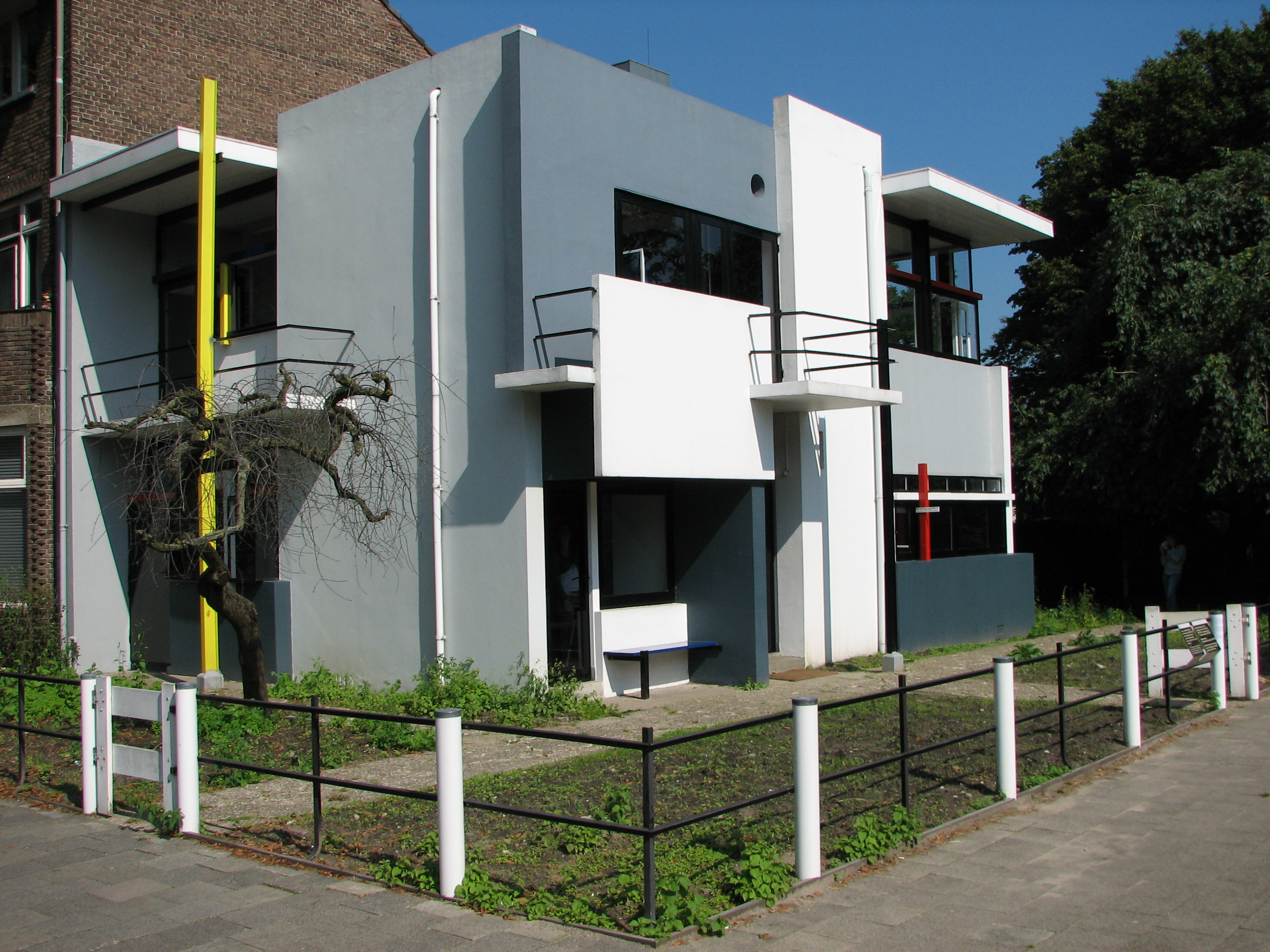 Utrecht